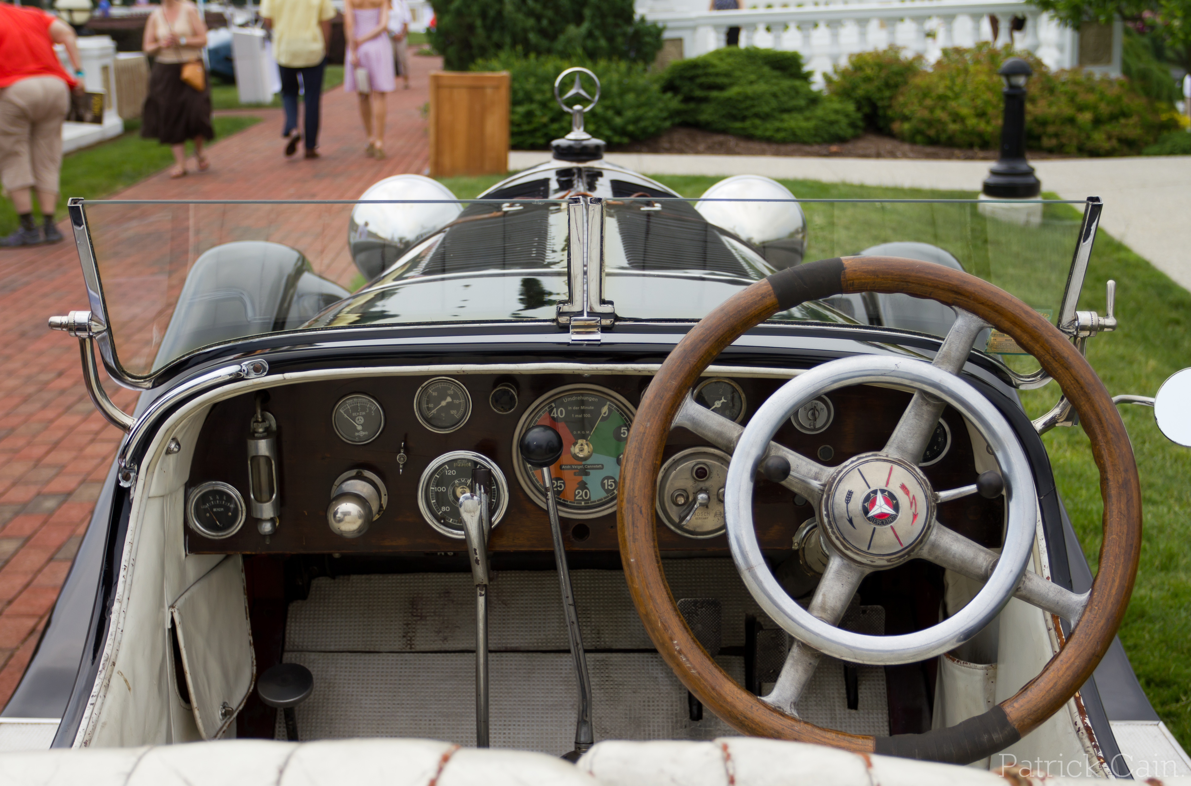 Photo of Mercedes-Benz SSK salon.